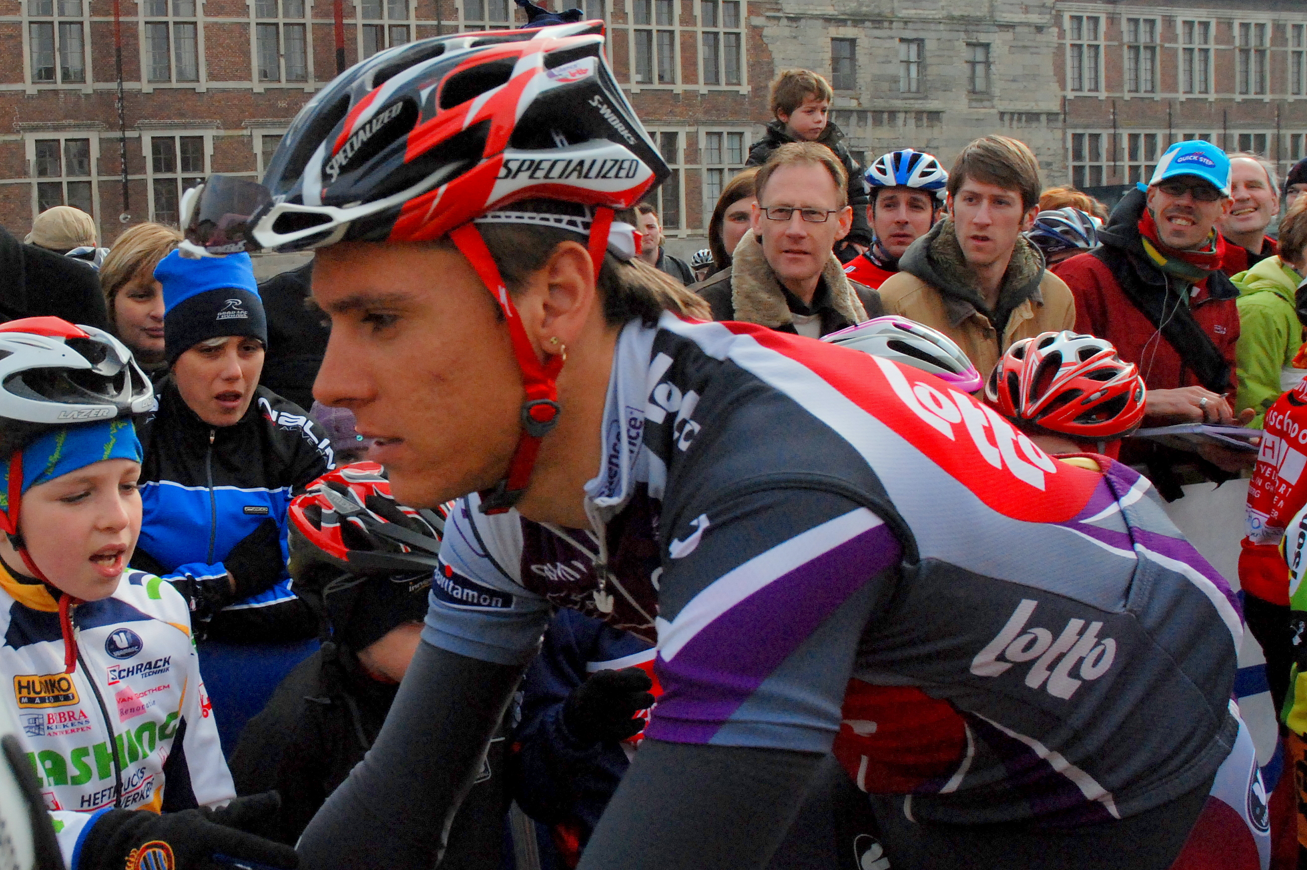 Cyclist Philippe Gilbert at the start of Omloop Het Nieuwsblad in 2009.